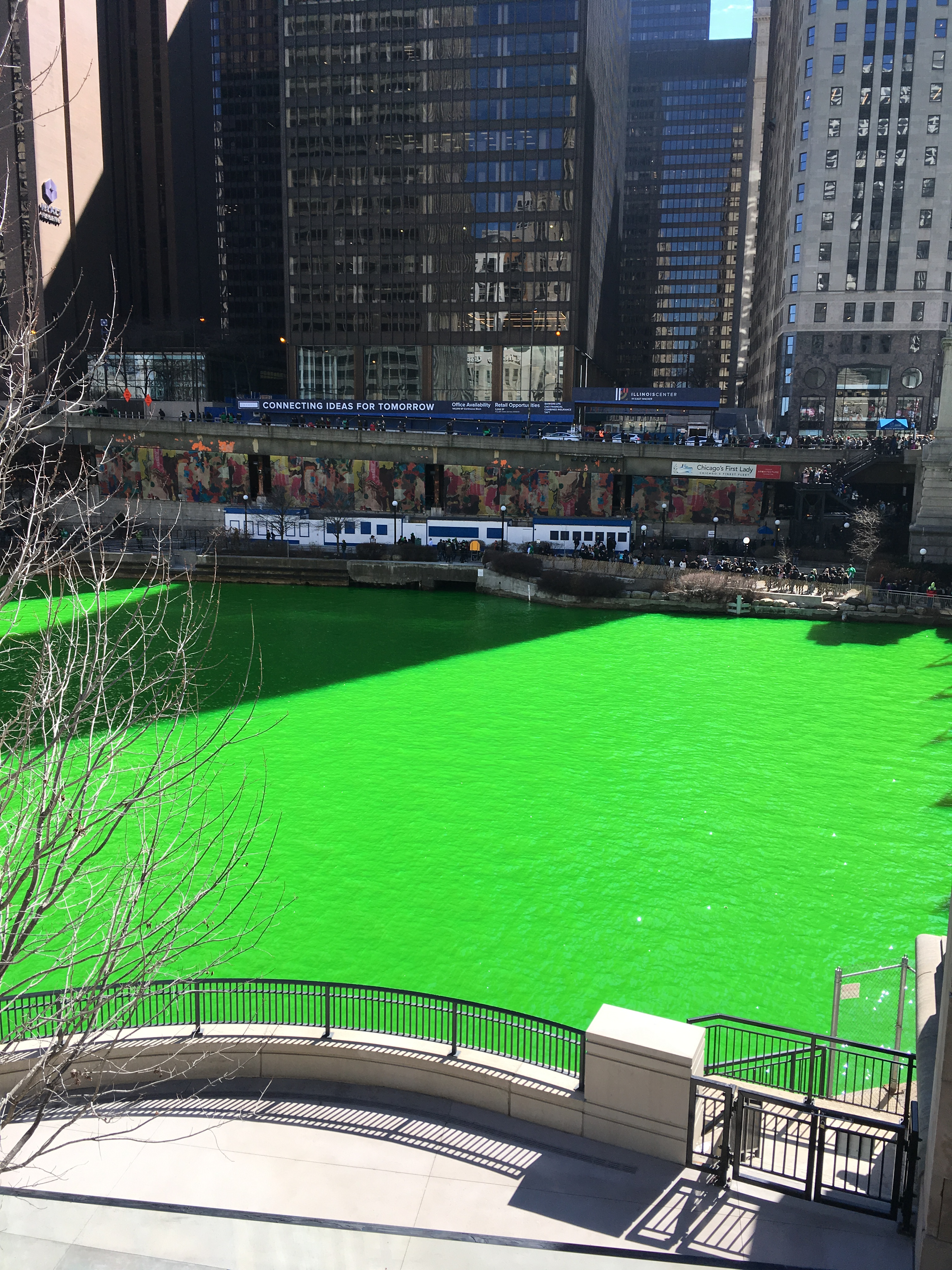 Chicago River dyed green for the St. Patrick's Day parade